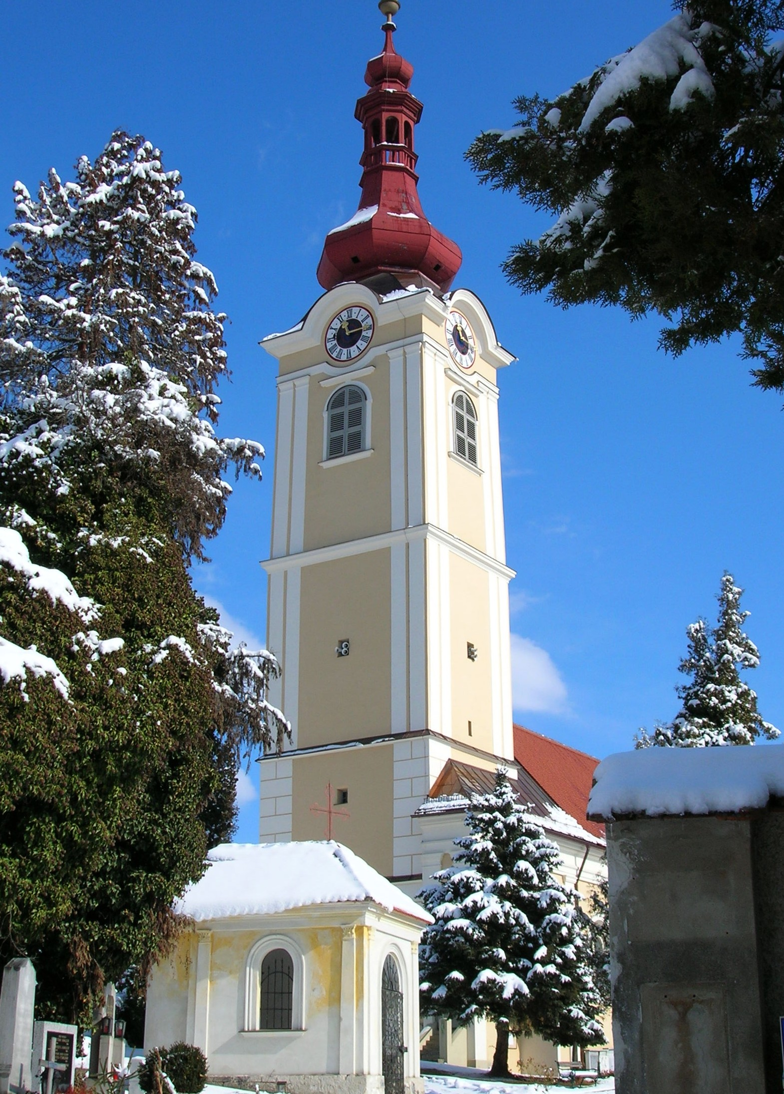 Built by Domenico Sciassia, 17th century